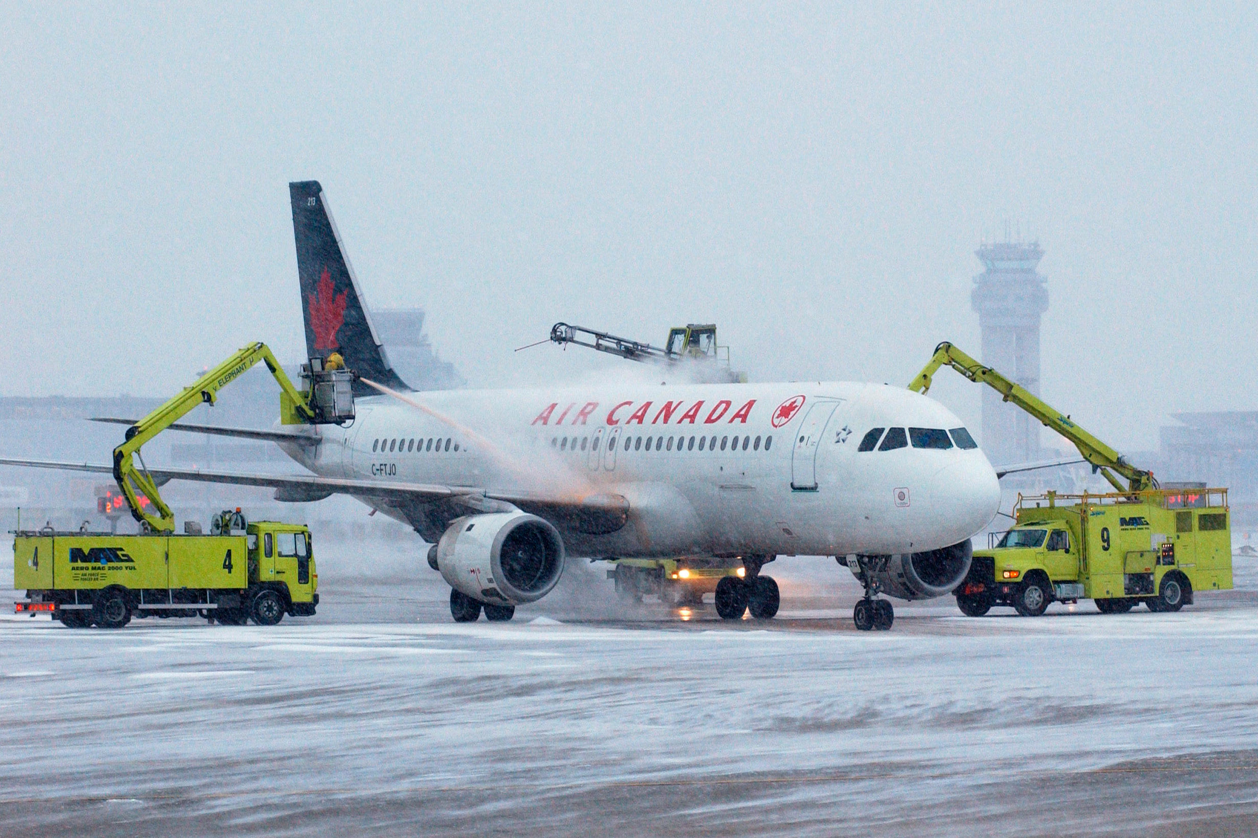 An Air Canada Airbus A320 being de-iced. I took this photo when i was at the airport